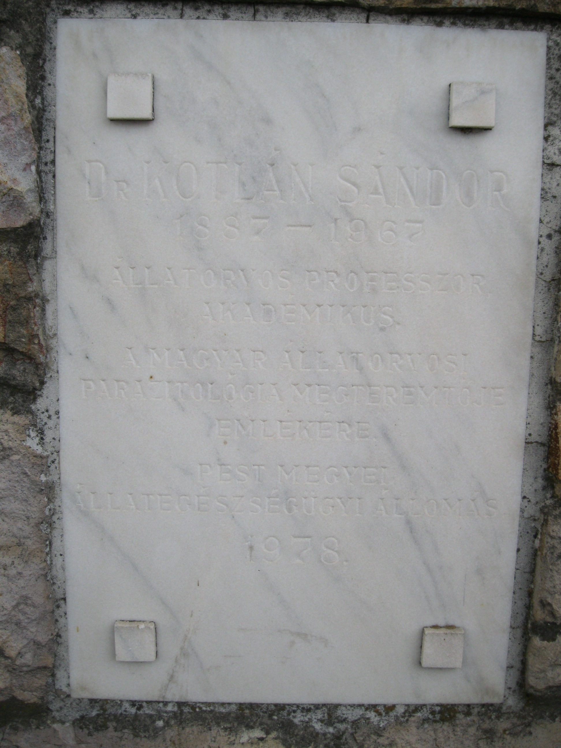 Commemorative plaque of Sándor Kotlán in Gödöllő, Kotlán Sándor Street No 1